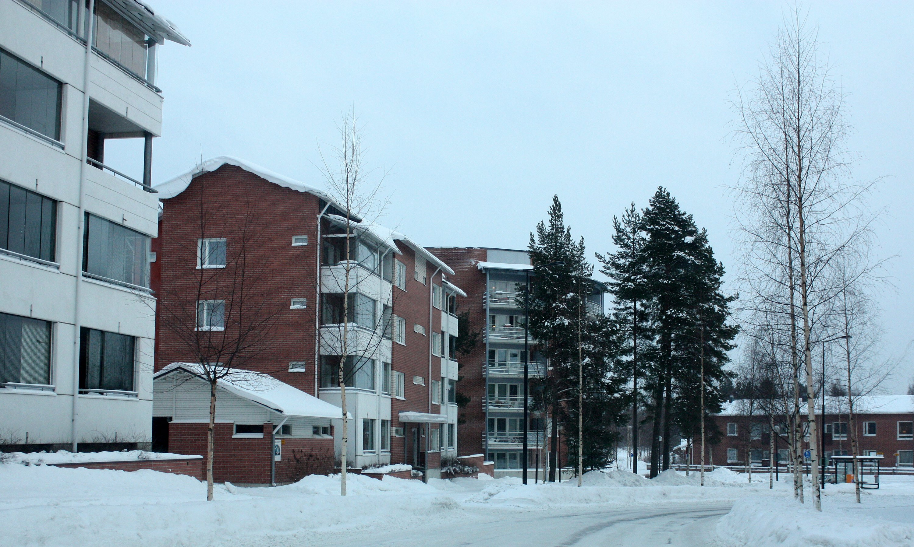 The Metsänkuninkaantie street in Hiironen district in Oulu.